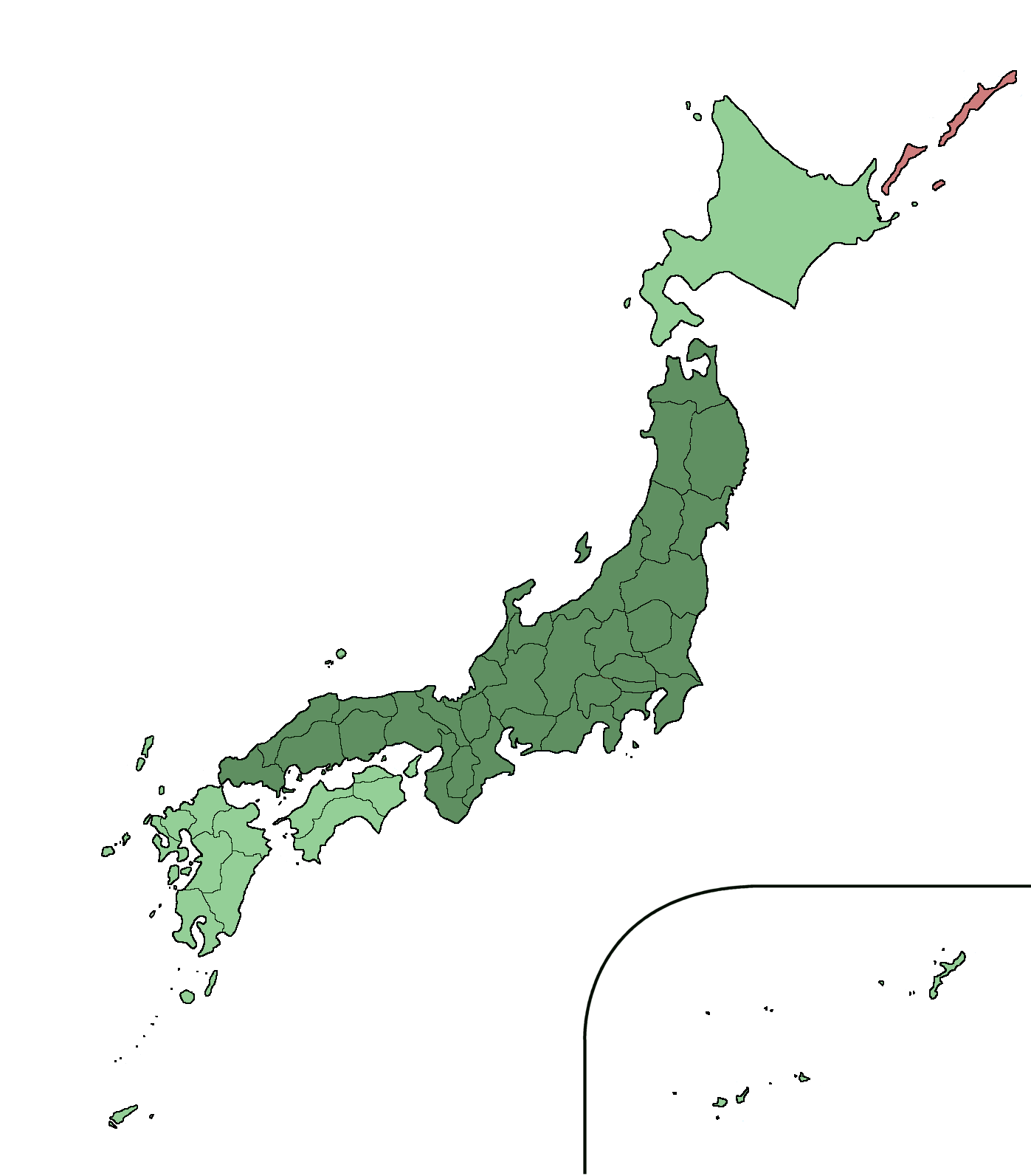 Large size map of Japan with Honshu highlighted, self made but originally based on a japanese mapbook.